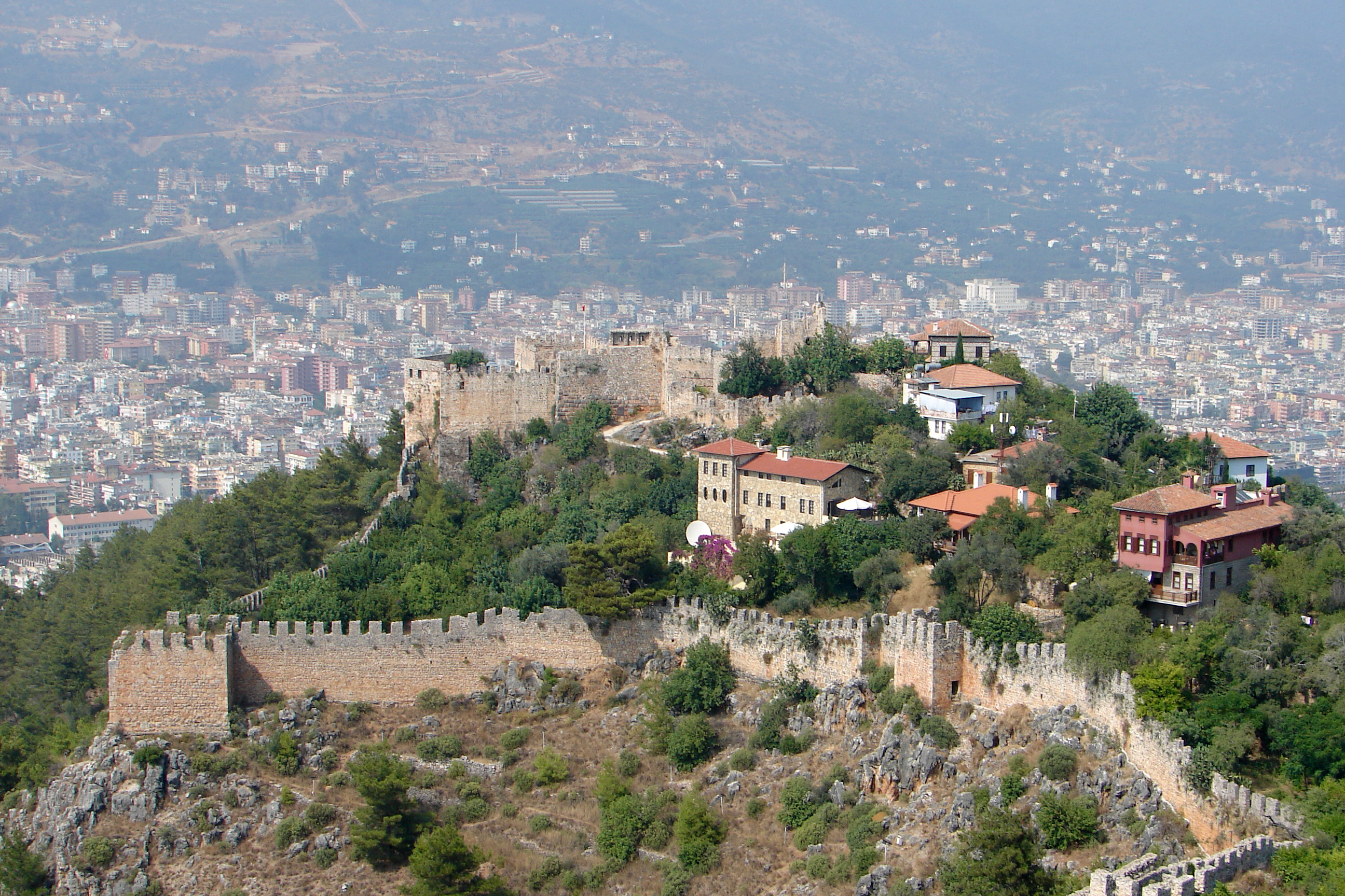 Alanya, Selcuk's Castle